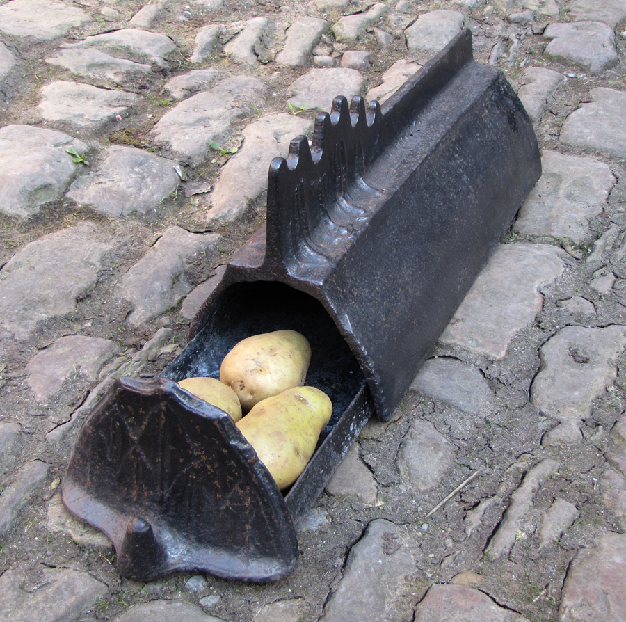 Andiron or firedog with drawer, 19th century, Gourmet museum, Hermalle-sous-Huy, Belgium